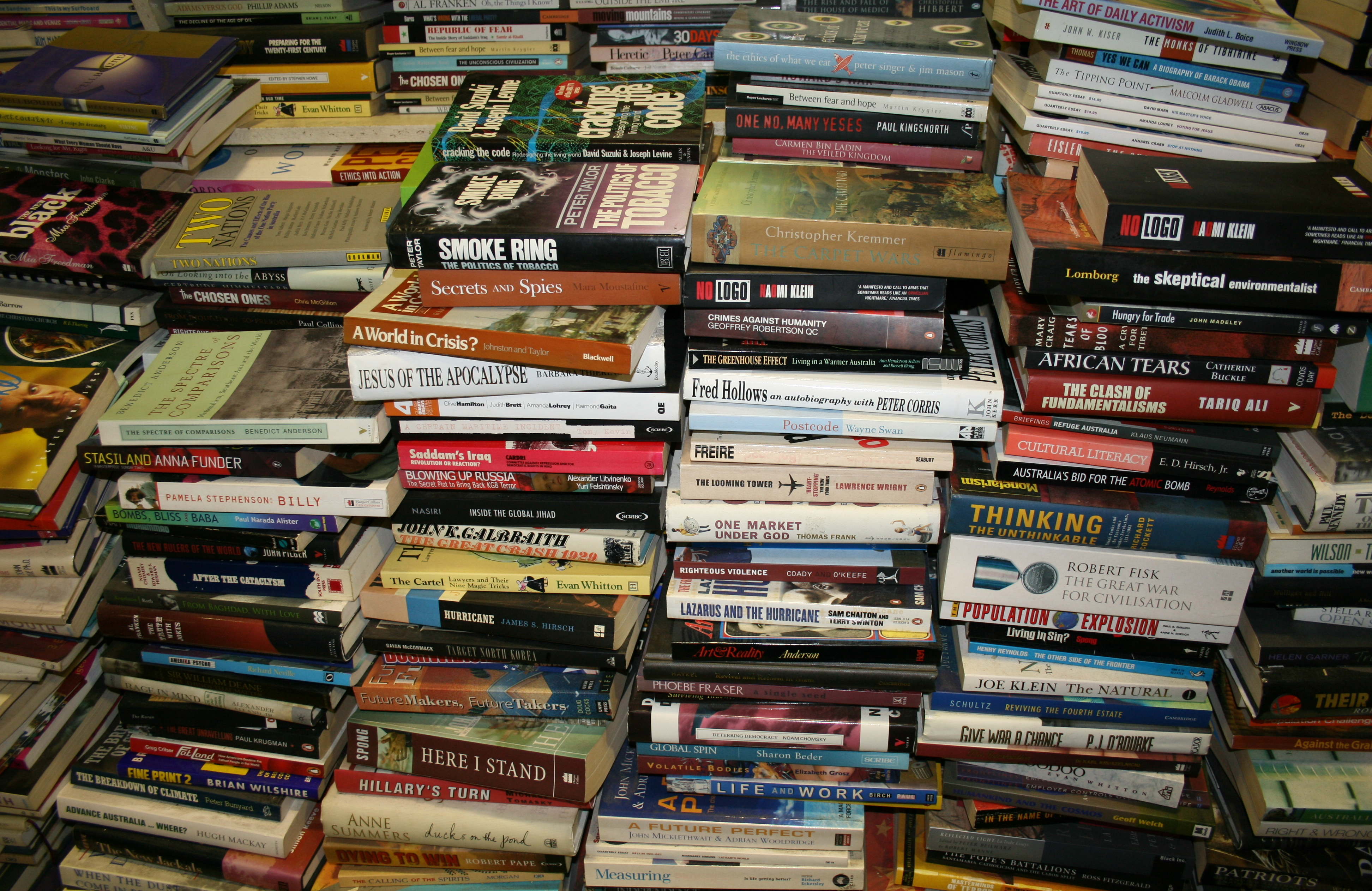 Stack of books in Gould's Book Arcade, Newtown, New South Wales (NSW), Australia.